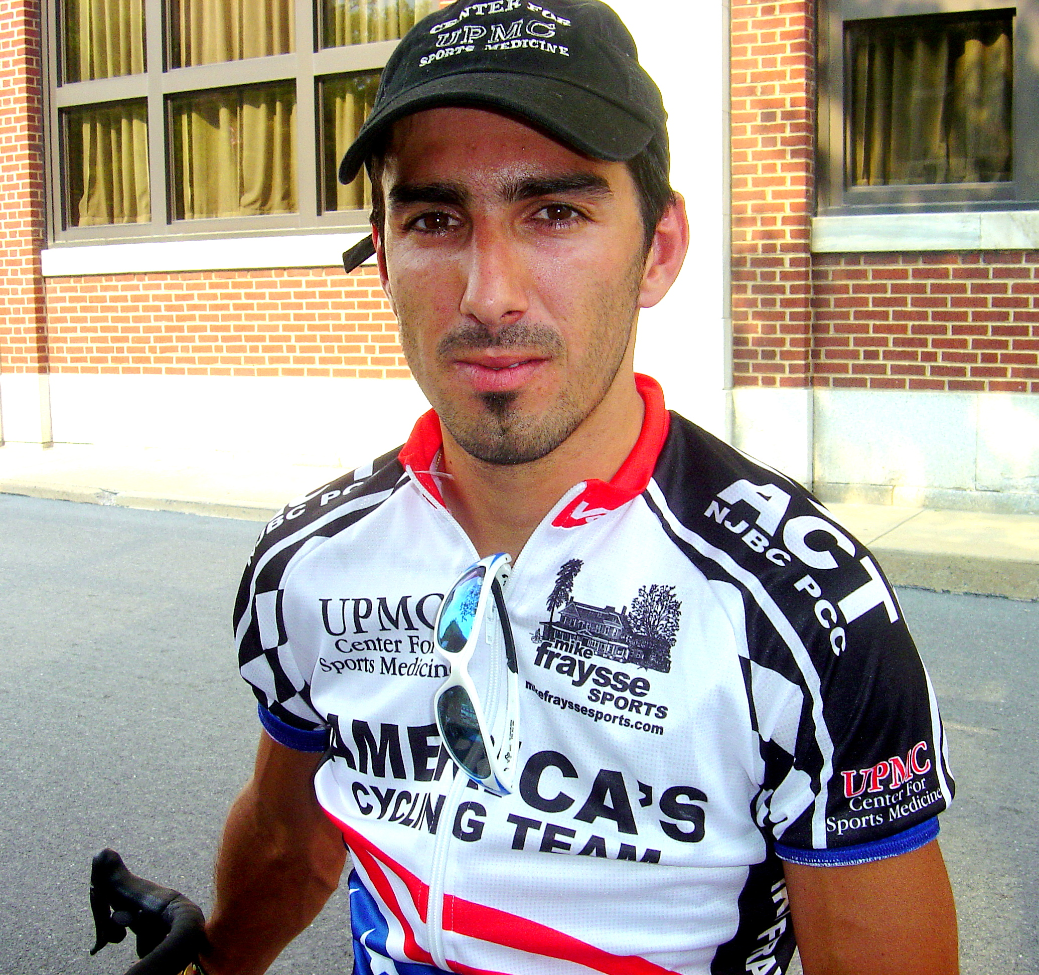 Alvaro Tardaguila, winner of the Dave Wollet Memorial Criterium in Williamsport, PA, August 14, 2005; photo taken pre-race.